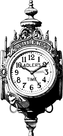 Drawing of Adler's of New Orleans Clock